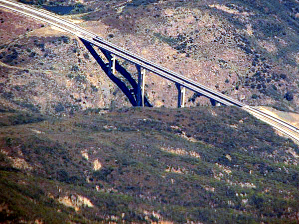 Pine Valley Creek Bridge, Interstate 8, San Diego County, California, USA from a Southwest Airlines flight on July 11, 2005.